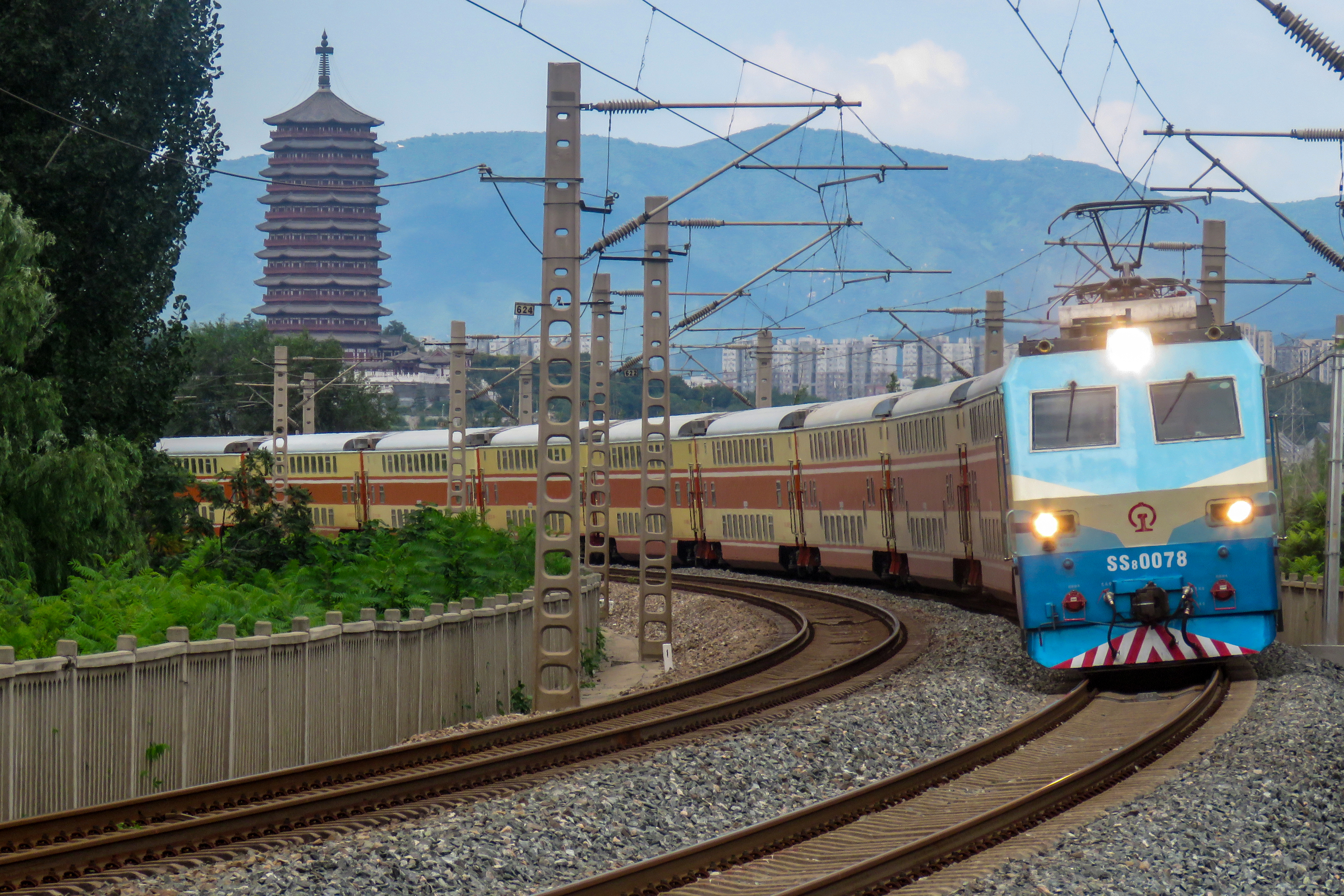 K5211 to Handan. Nice weather, but the sunlight was blocked by the clouds. Celebrate the 20th anniversary of electrification on Beijing-Guangzhou Railway and salute to the quasi-high speed locomotives from the late 1990's!